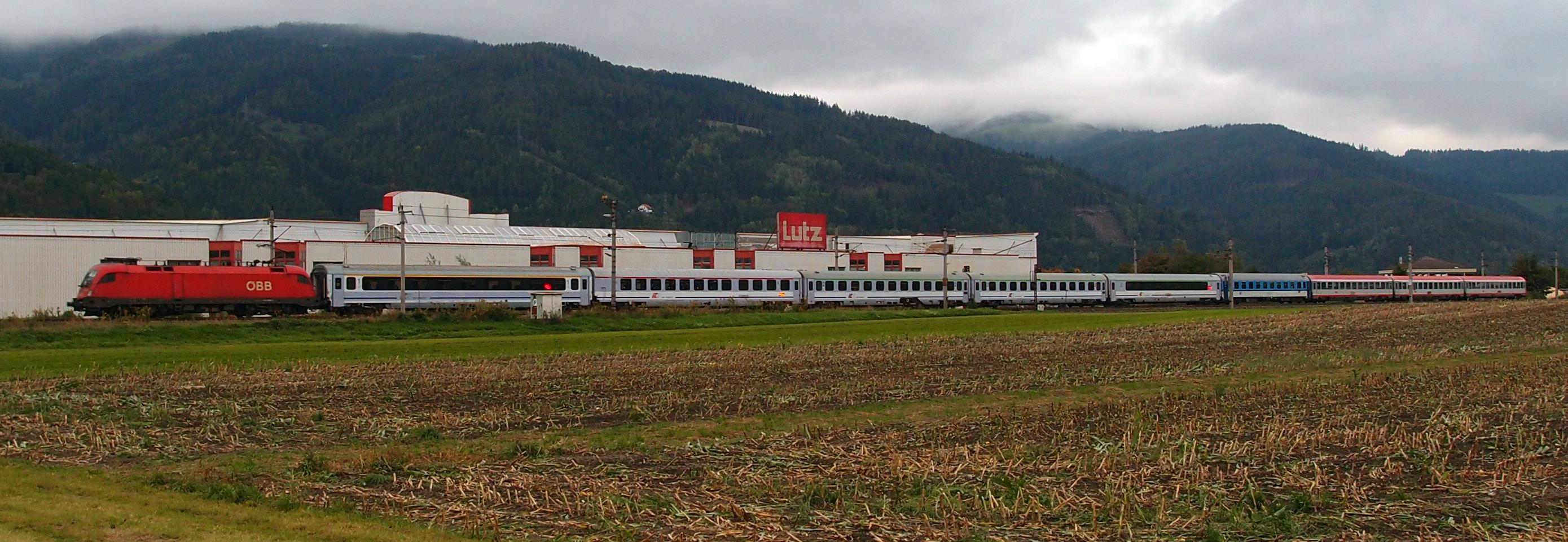 EuroCity 103 Polonia (Warszawa - Villach) near Leoben, Austria